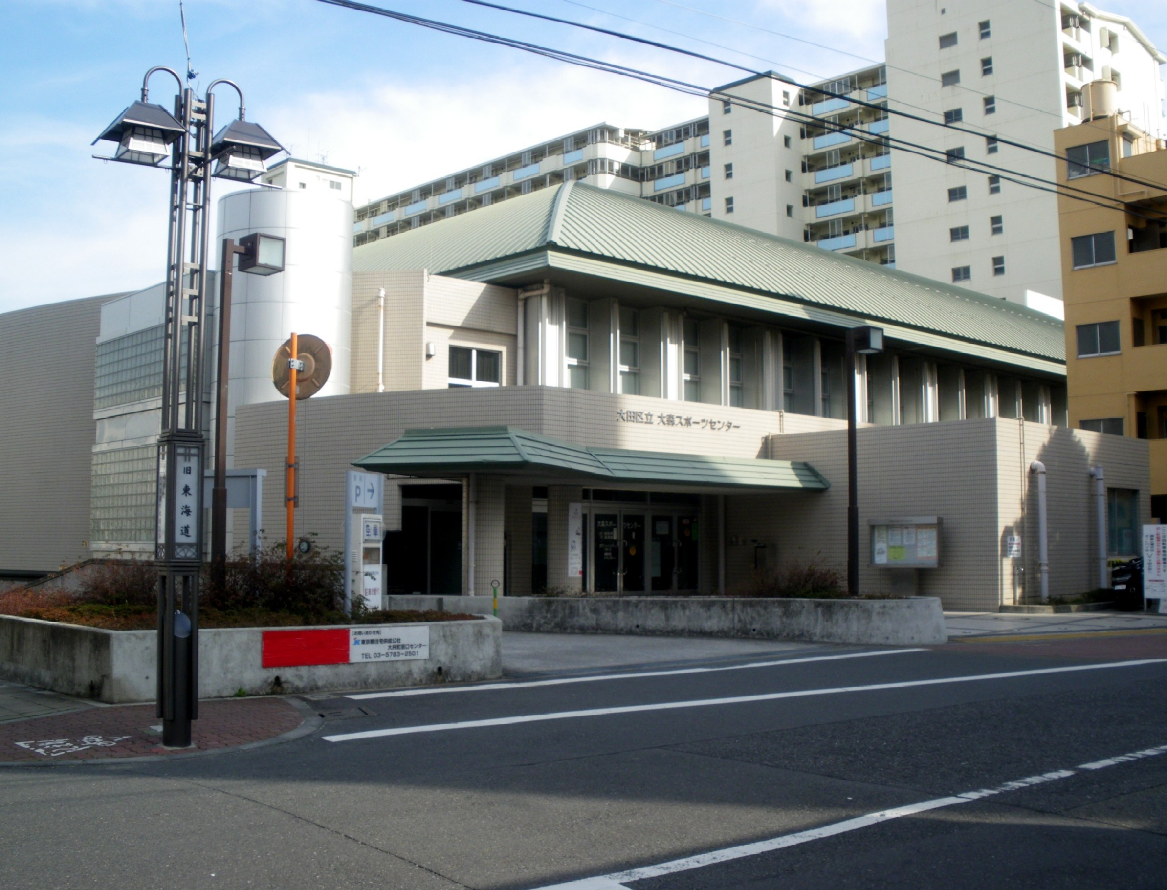 Omori Sports Center(Ota,Tokyo)